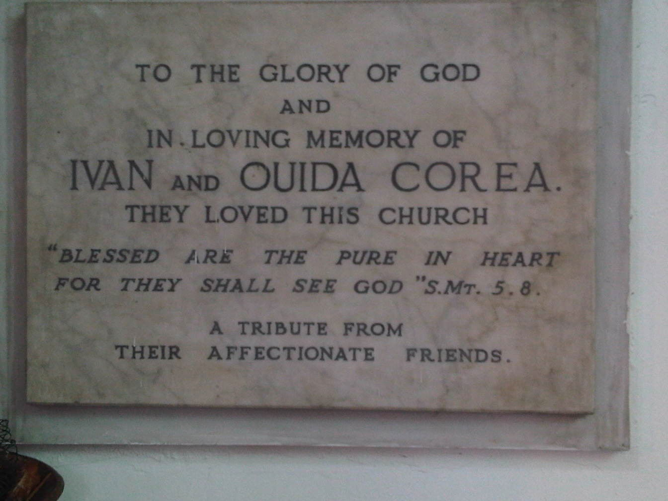 The plaque near the altar at St. Luke's Church Borella in Sri Lanka, remembering The Reverend Canon Ivan Corea and his wife Ouida Corea. Canon Corea was the longest serving Vicar in the history of St. Luke's Church, Borella.